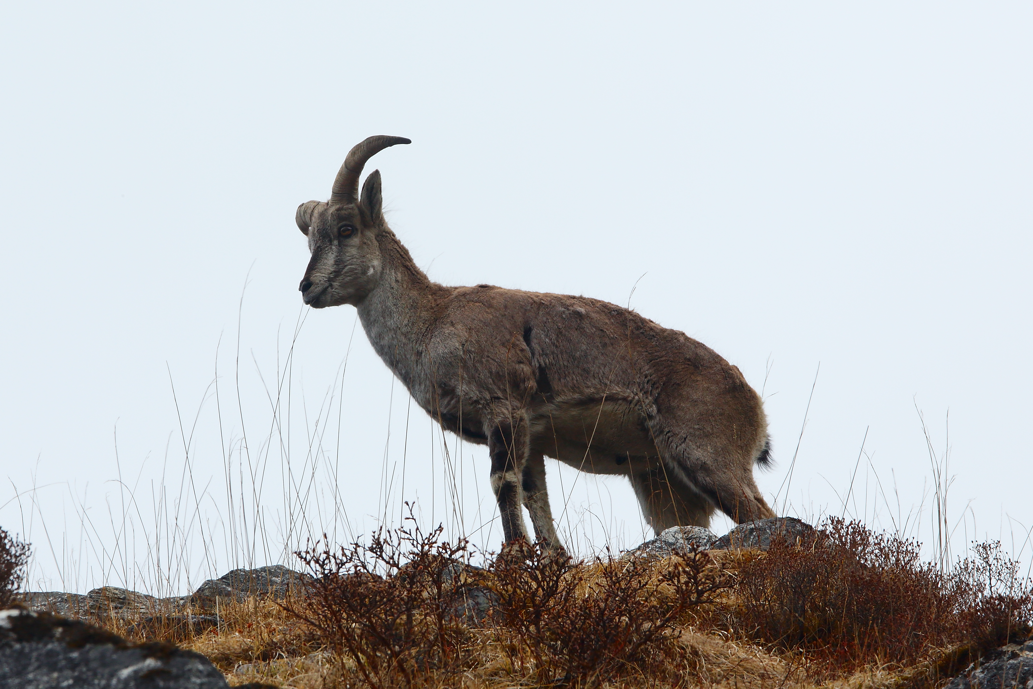 Bharal, Lake Samiti, Kangchenjunga National Park, Sikkim, India